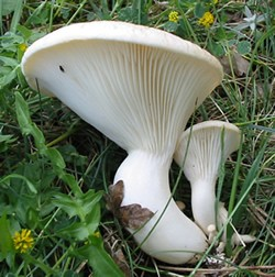 According to IUCN/SSC specialists this is one of the most endangered species of island floras in the Mediterranean area.